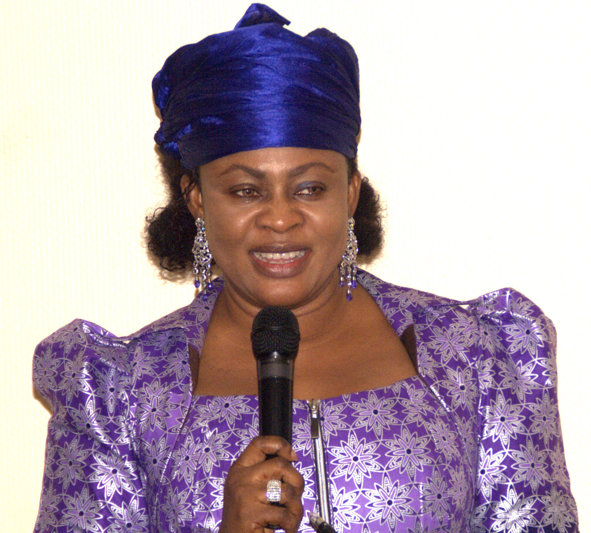 Picture of Princess Stella Oduah-Ogiemwonyi